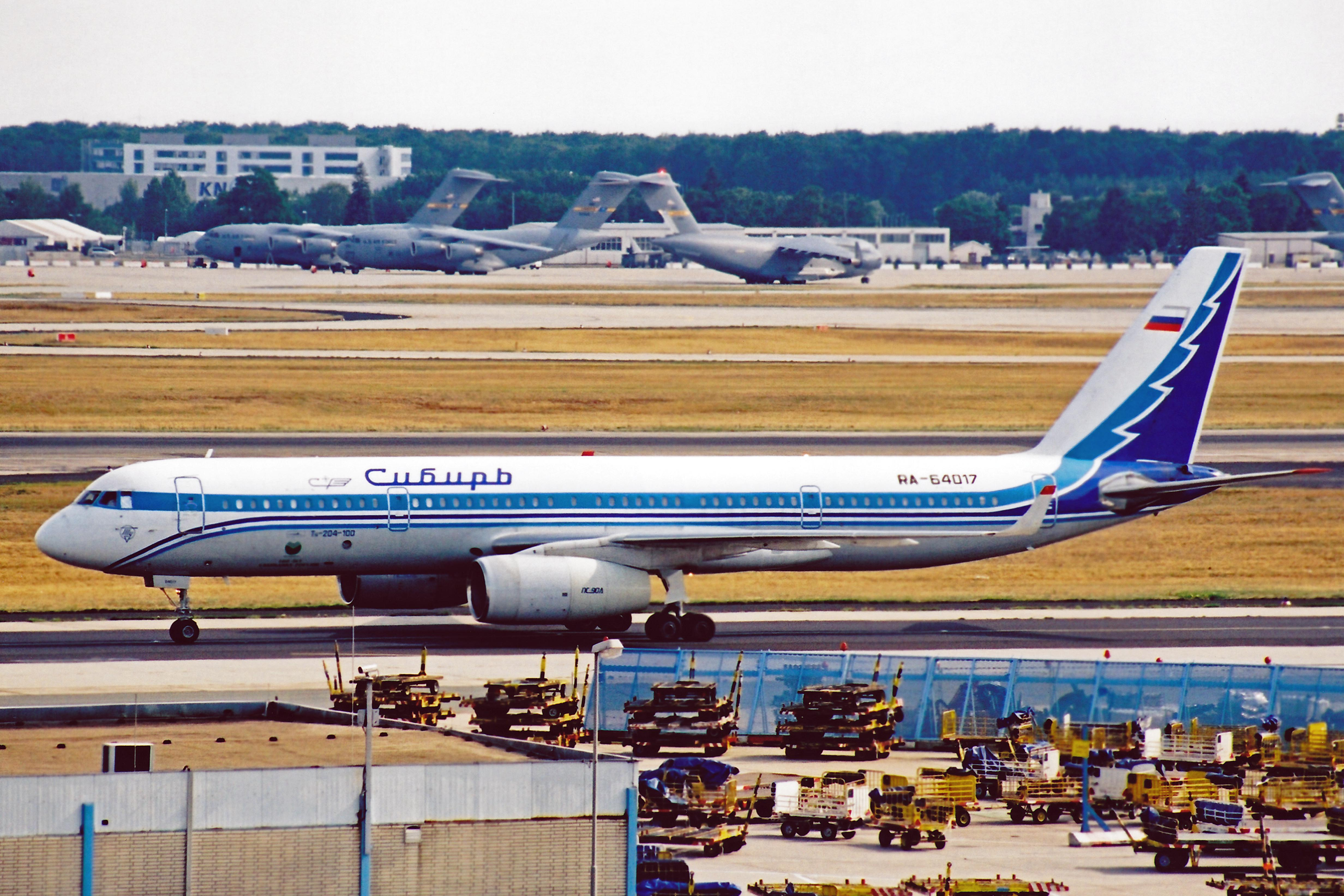 Siberia Airlines Tupolev Tu-204-100 (RA-64017) at Frankfurt Airport